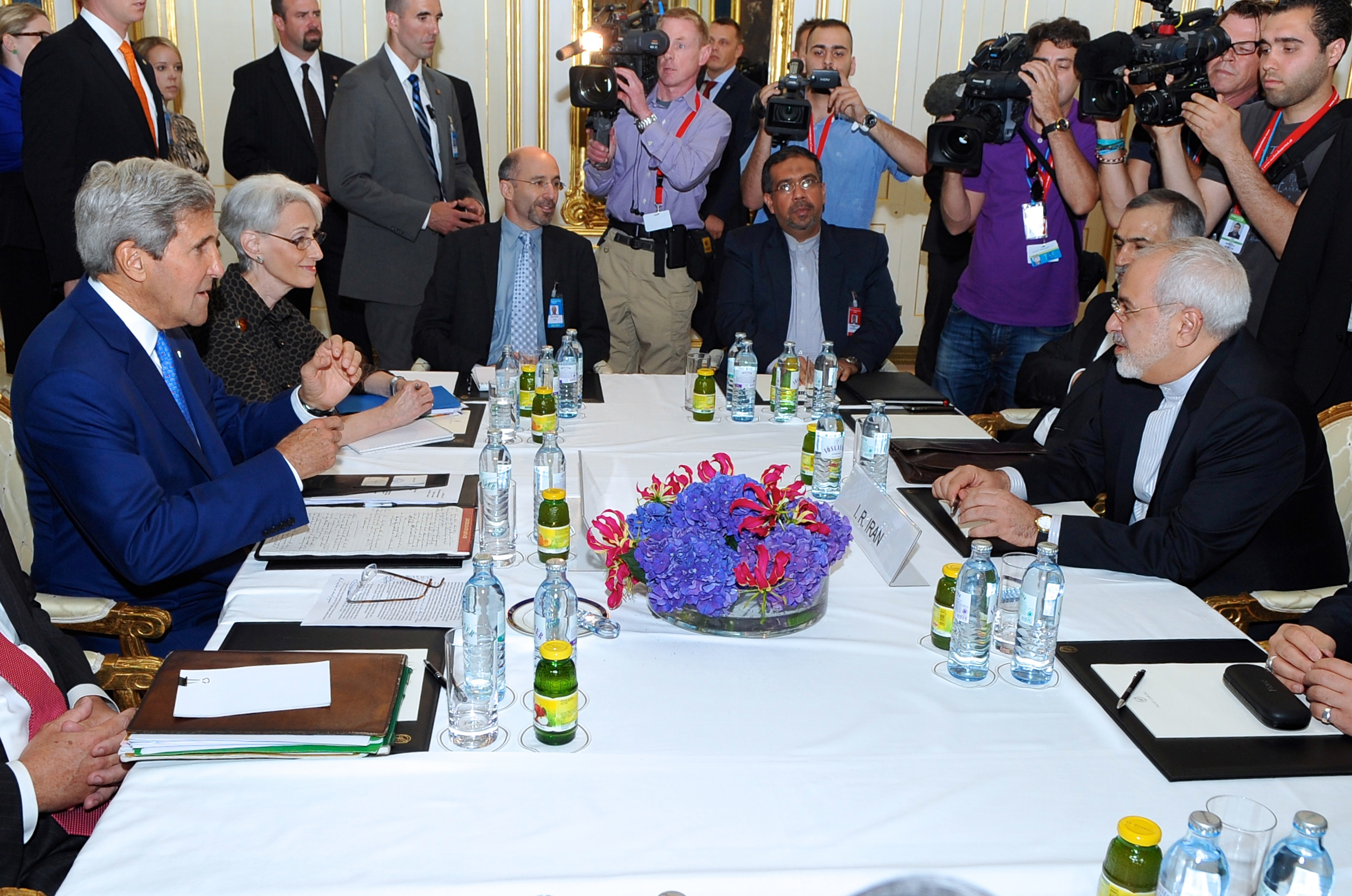 U.S. Secretary of State John Kerry prepares to sit down with Iranian Foreign Minister Mohammad Javad Zarif in Vienna, Austria, on July 14, 2014, before they begin a second bilateral meeting focused on Iran's nuclear program. [State Department photo/ Public Domain]